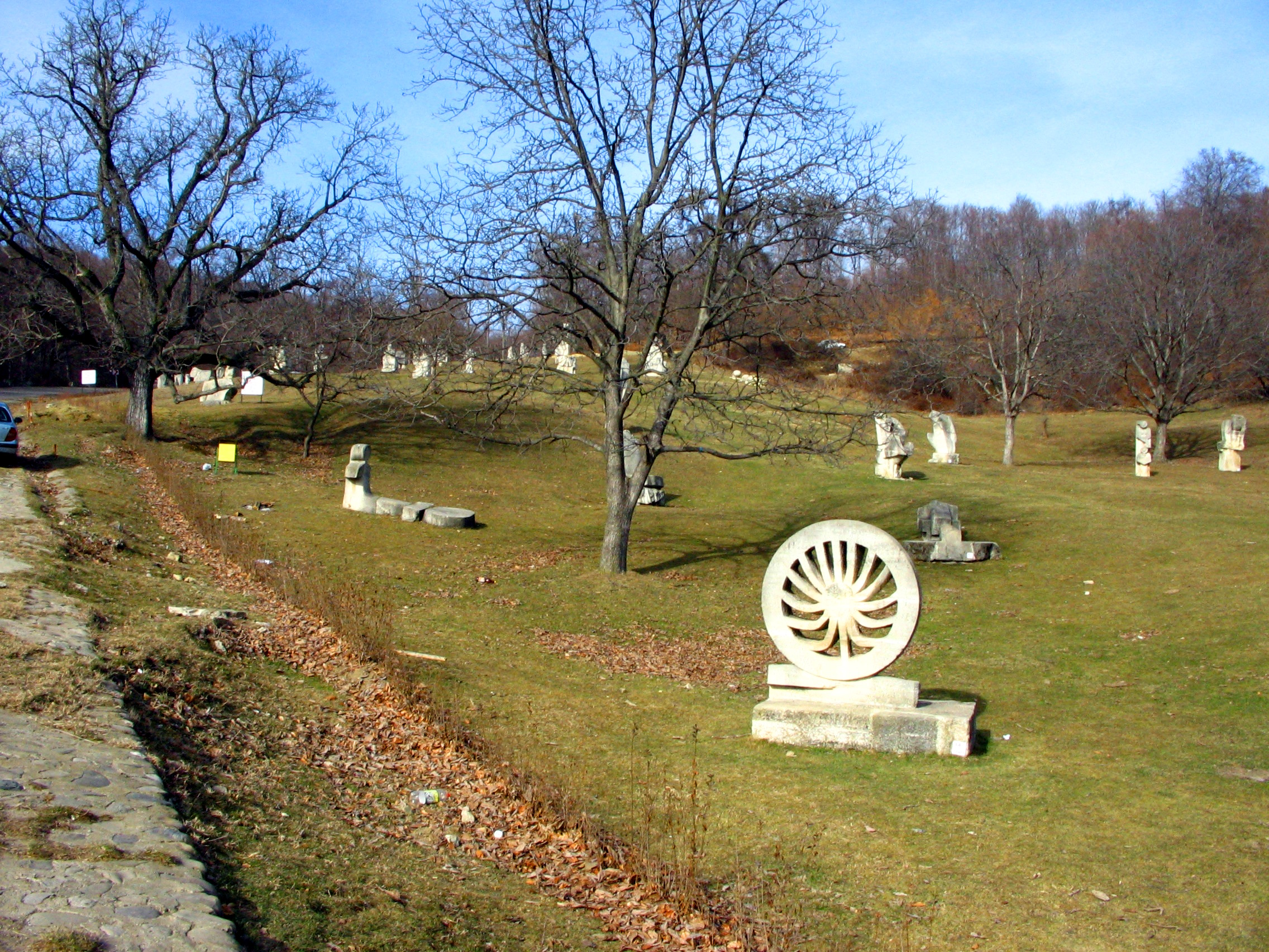 Sculpture from the Măgura sculpture camp in Buzău County, RomaniaRomână: Tabăra de sculptură de la Măgura, Buzău, România